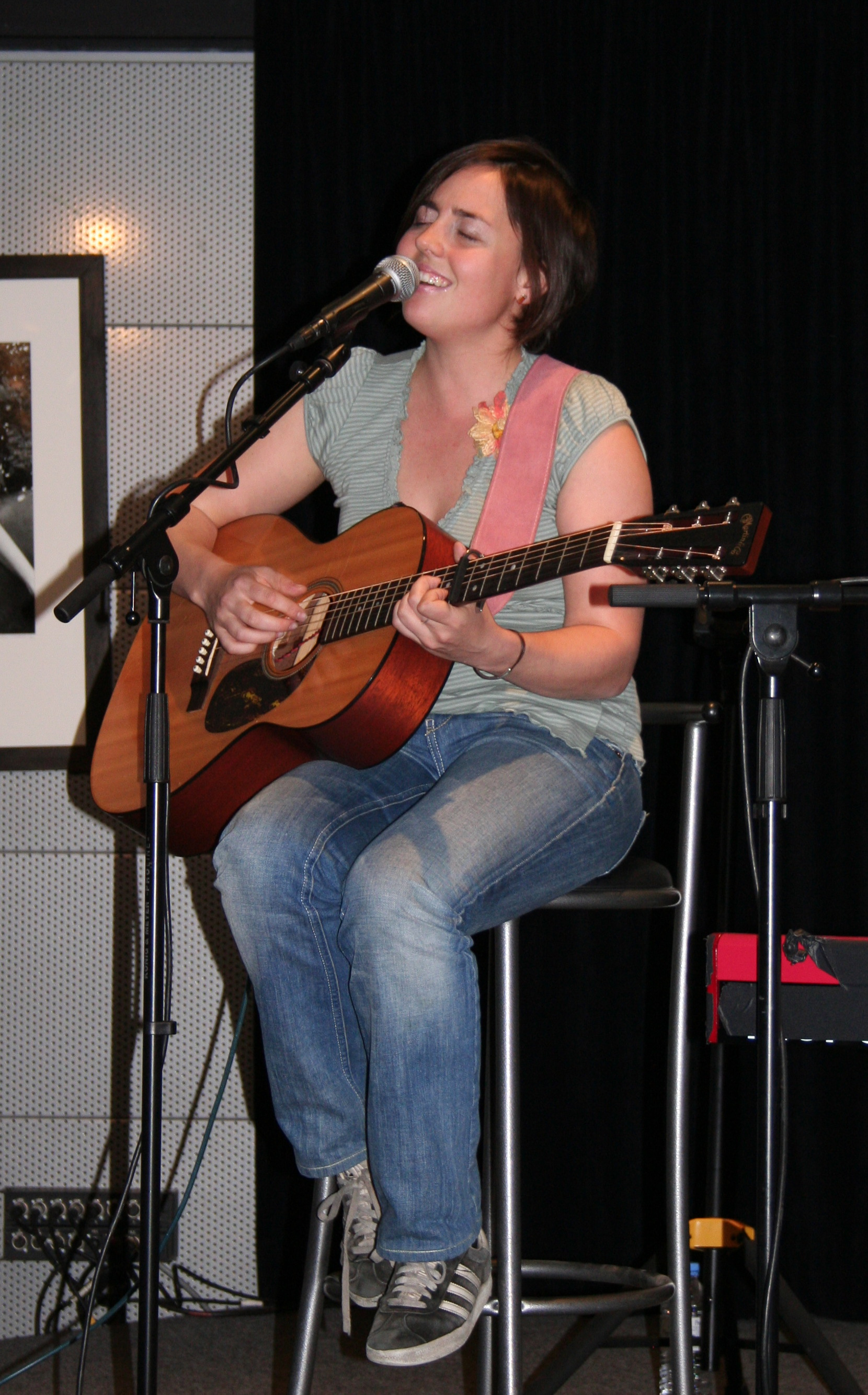 Show-case with Ariane Moffatt at Fnac des Ternes (Paris, France).